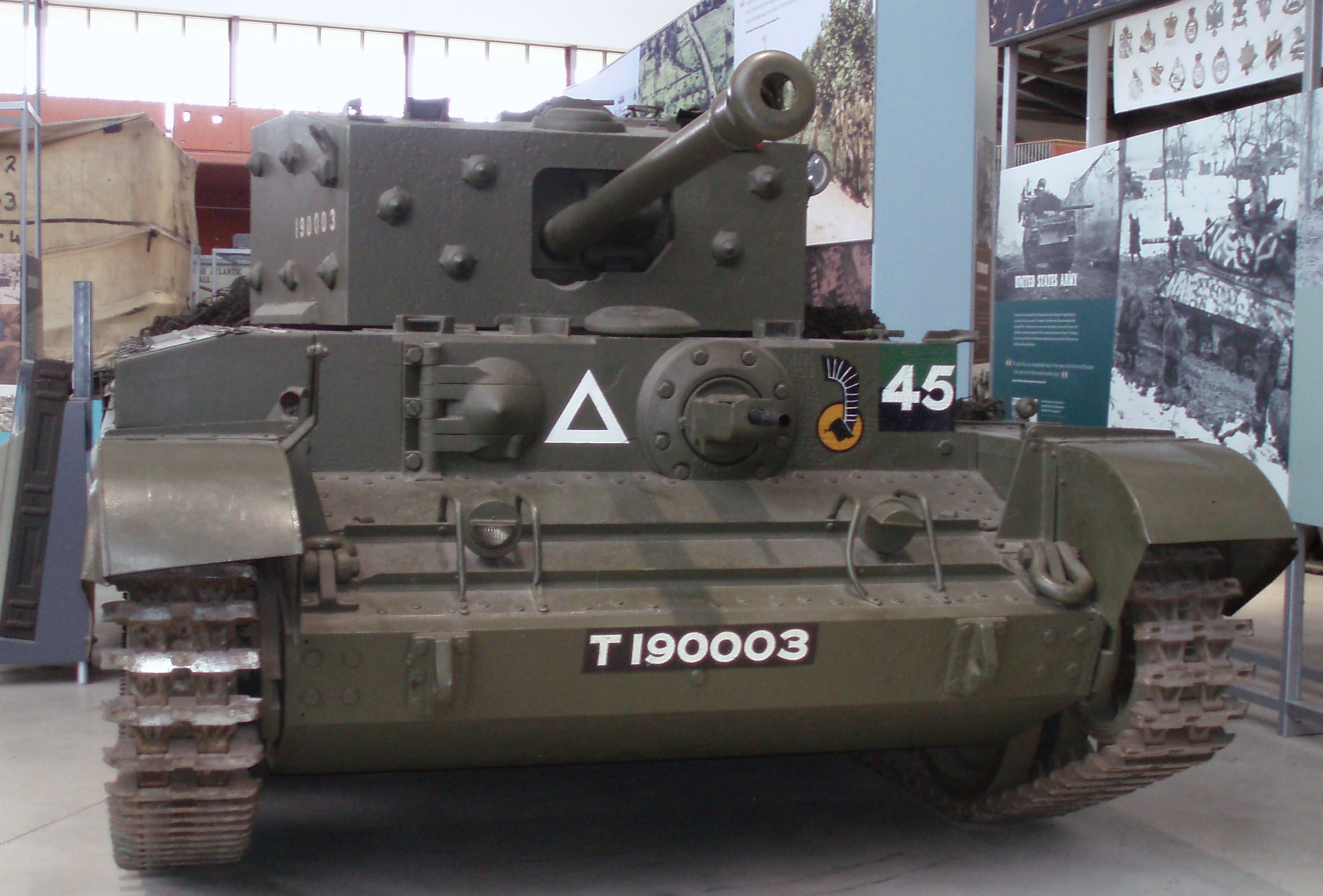 Bovington Tank Museum 130 CROMWELL Tank